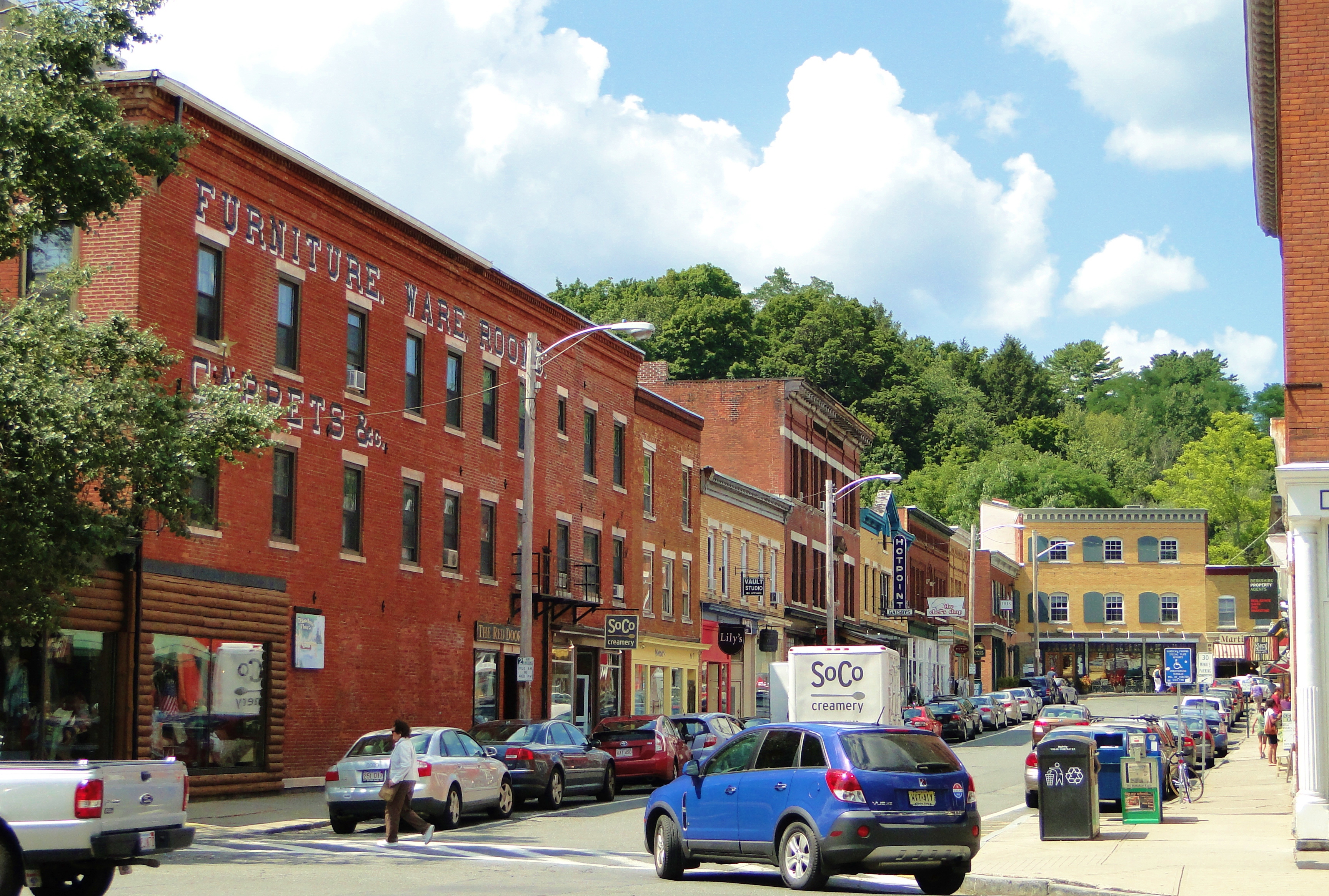 A view of Railroad Street in Great Barrington, MA